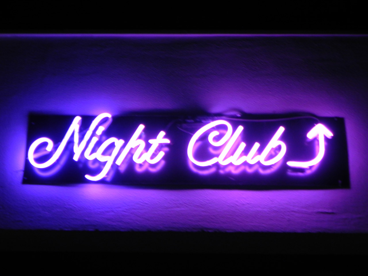 Nightclub neon sign